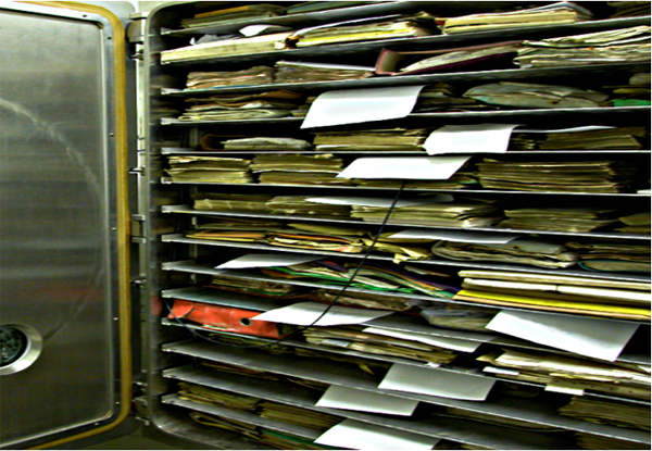 vacuum chamber for freeze-drying, open Zentrum für Bucherhaltung GmbH (ZFB) in Leipzig, reconditioning of books and archival material